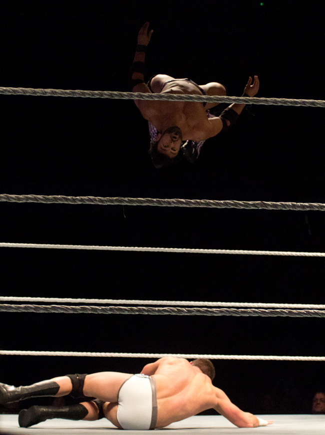 Justin Gabriel performing a Moonsault in January 2012. Cropped from original.